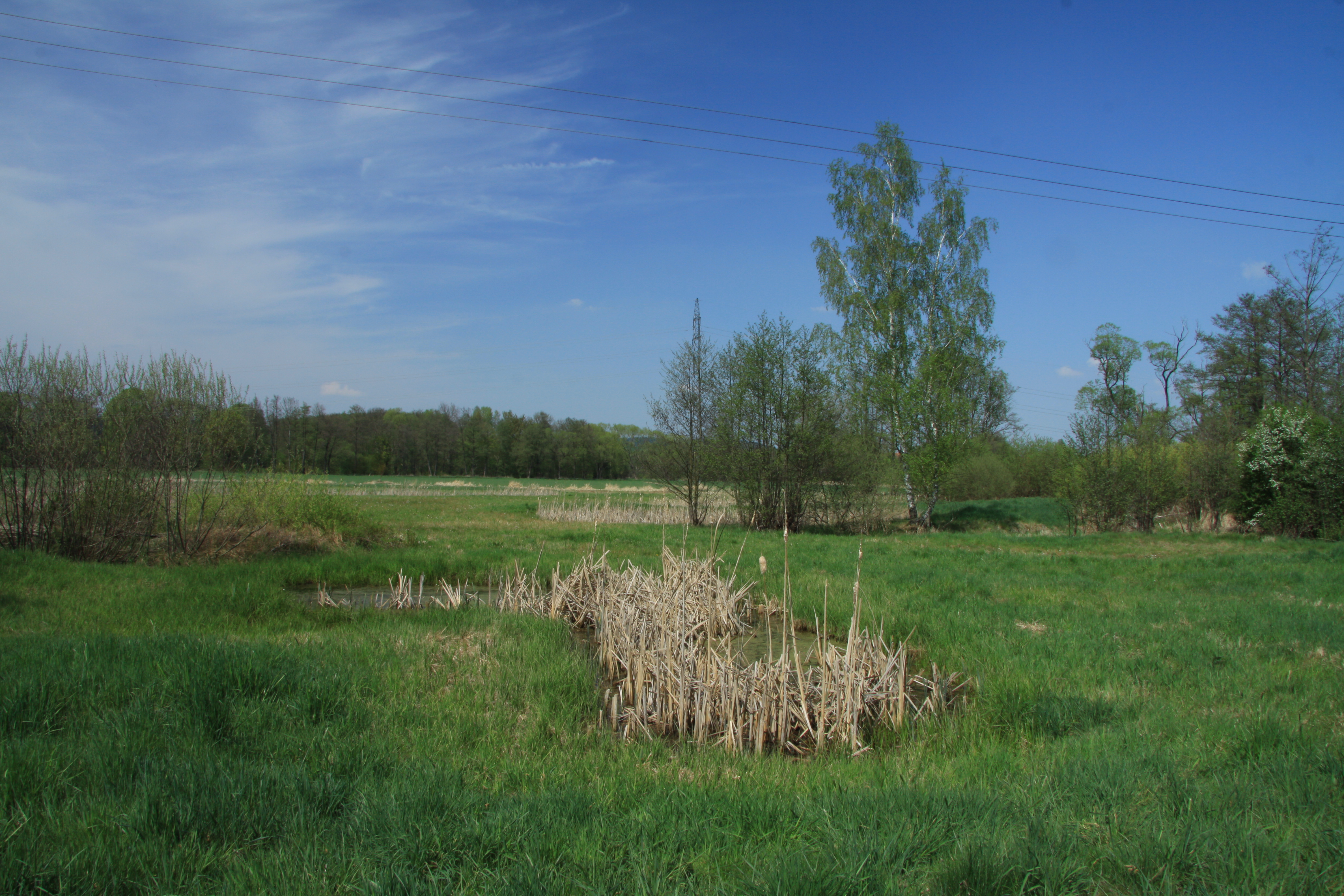 Natural monument Tůně u Hájské in Strakonice District, Czech Republic Project: Chráněná území.